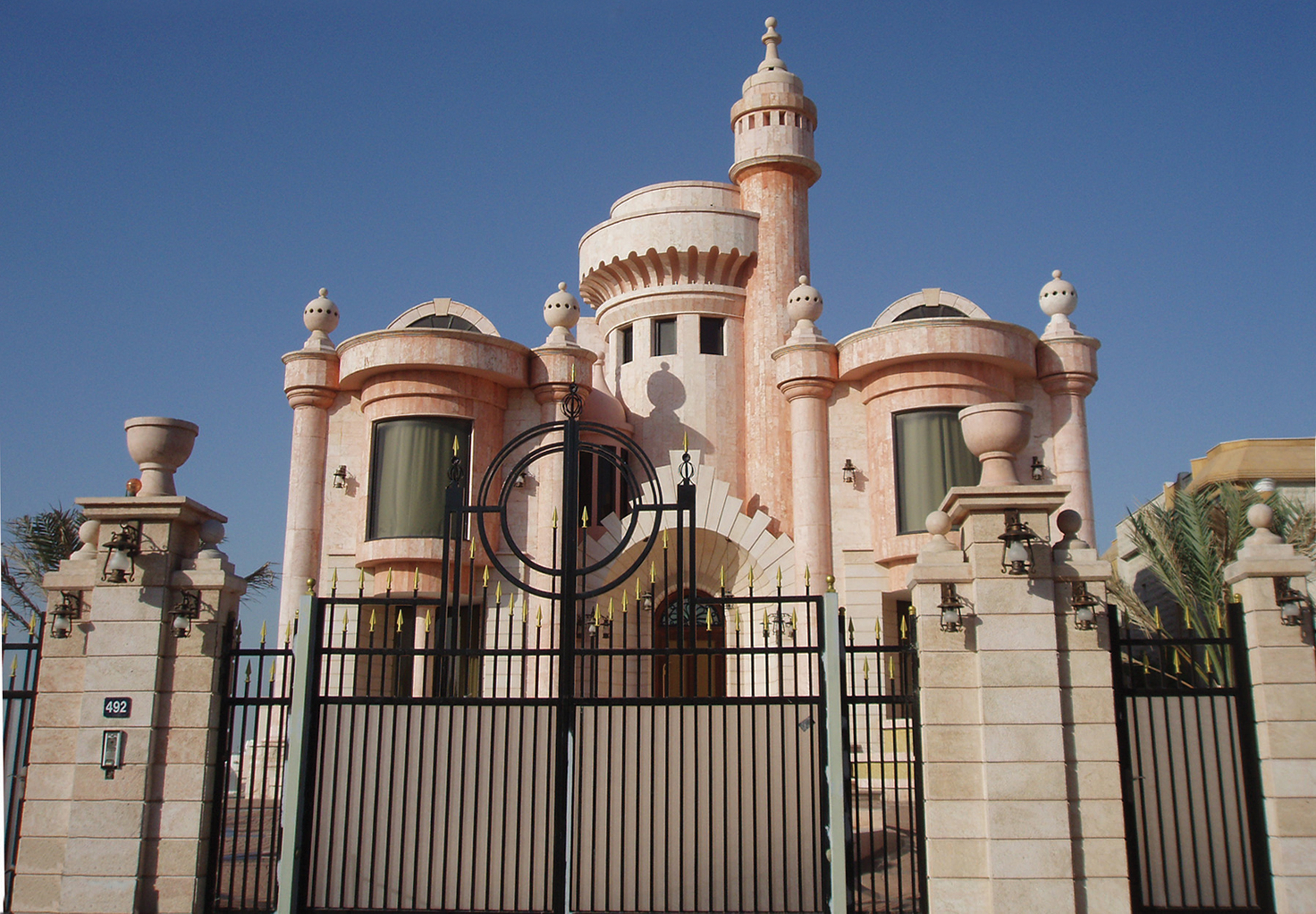 Jewel of Sharja by Basil Al Bayati